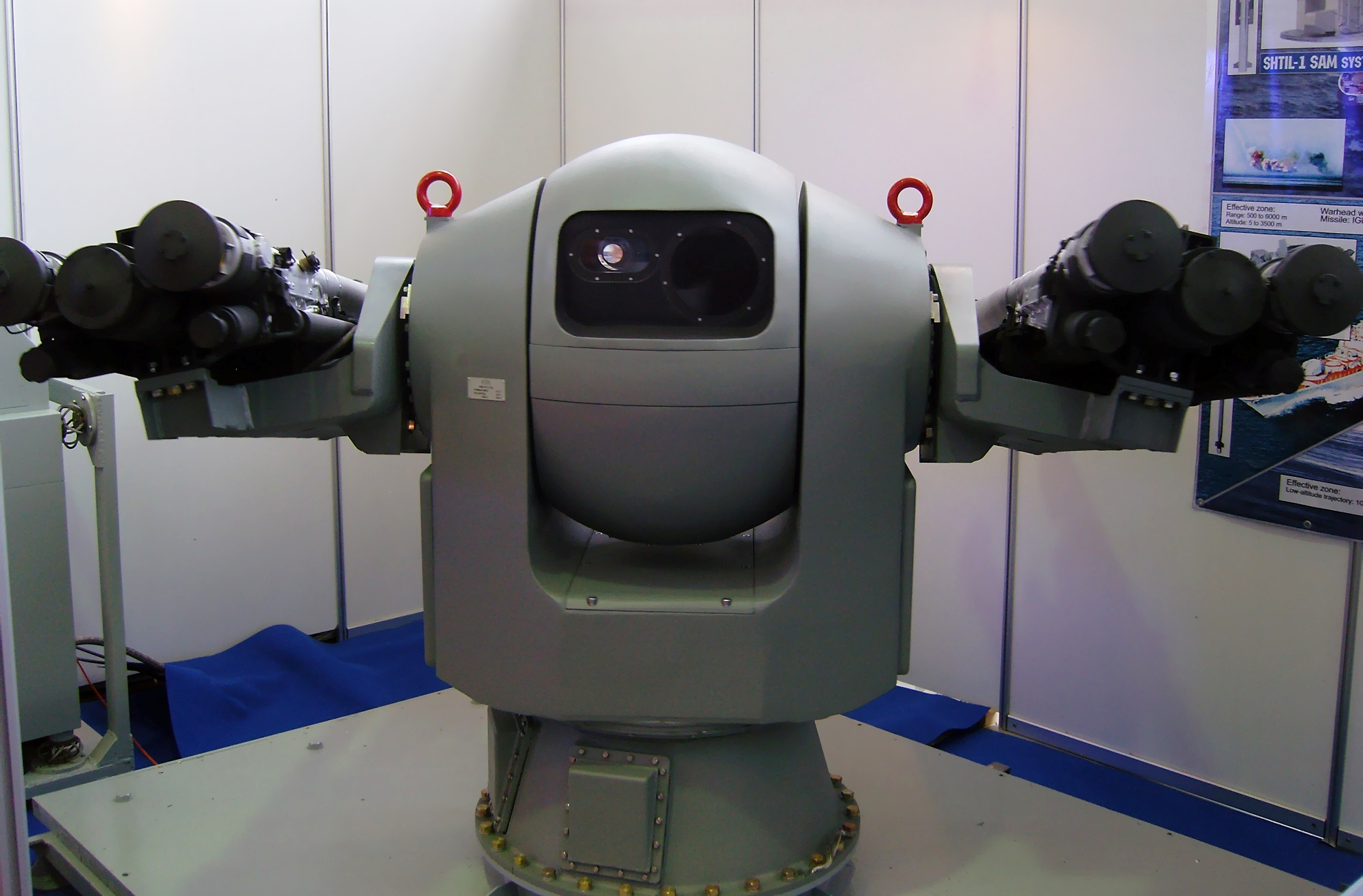 3M-47 Gibka (9M39 Igla) at IMDS-2007.